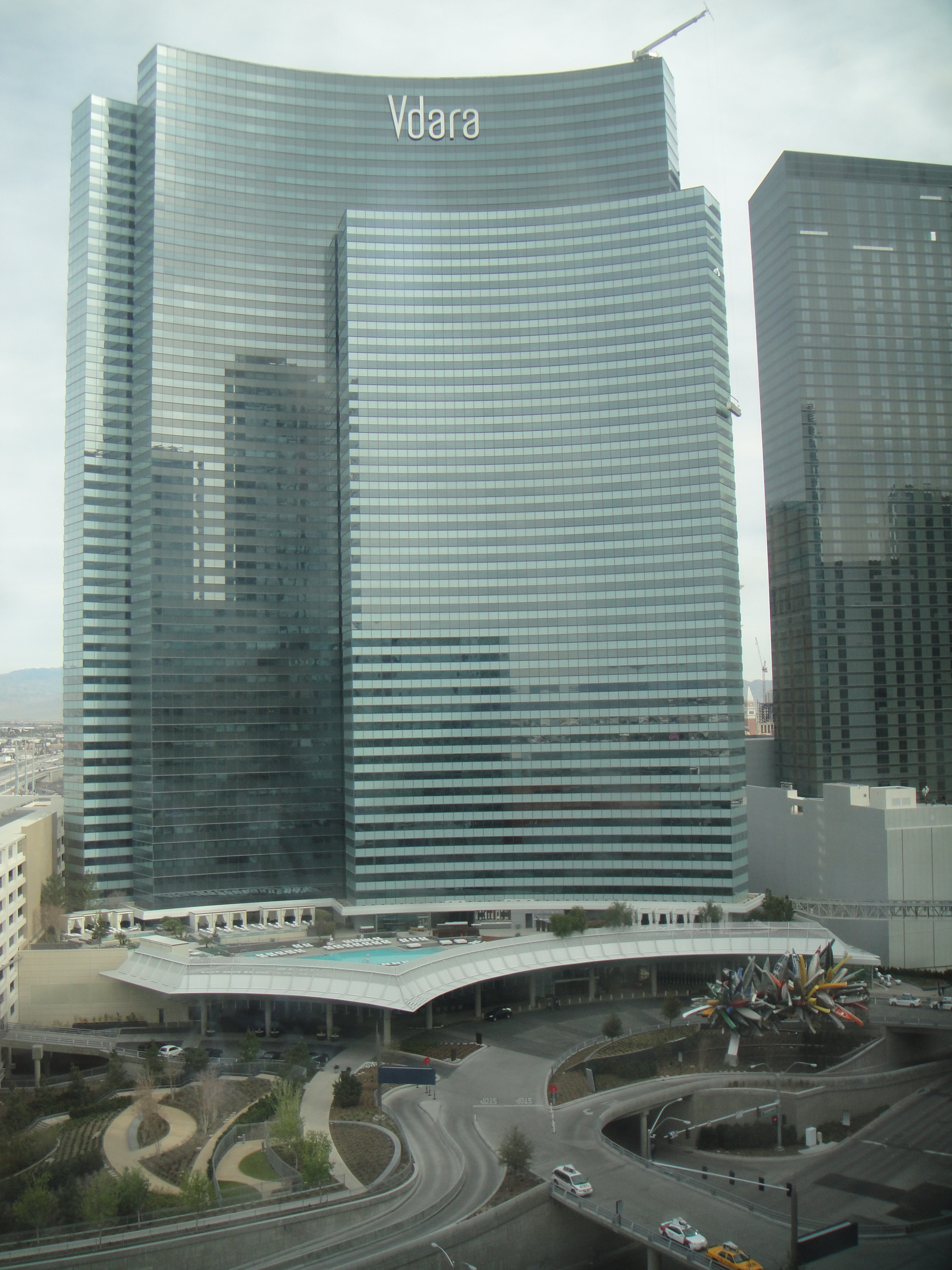 Photo of the Vdara Hotel in Las Vegas, Nevada